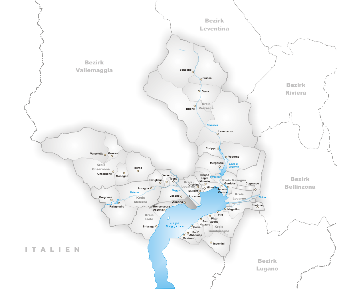 Municipality Ascona